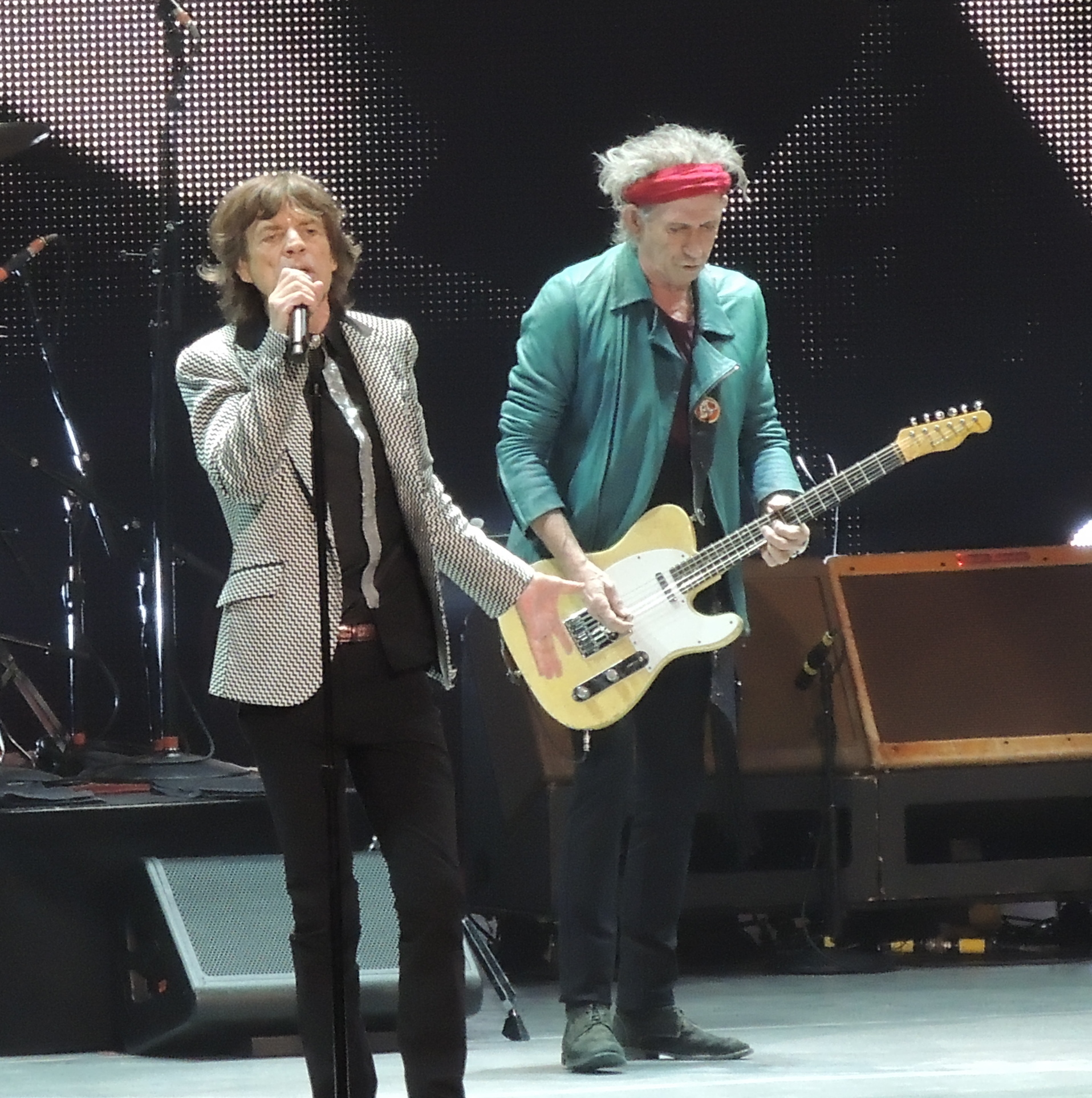 Mick Jagger and Keith Richards at the Prudential Center on 2012-12-13